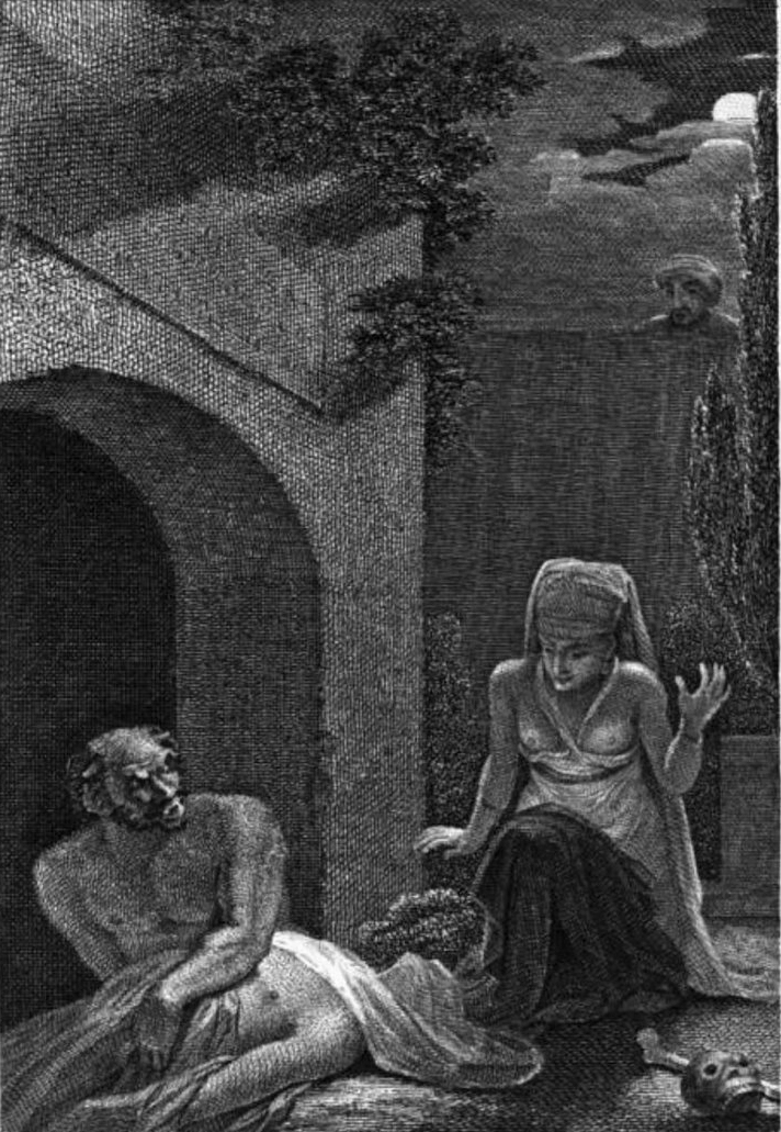 "Amine Discovered with the Goule", illustration for "History of Sidi Nouman" of the Arabian Nights. Engraving from The Arabian Nights Entertainments, translated by the Reverend Edward Forster, carefully revised and corrected by G. Moir Bussey. Published London 1840.